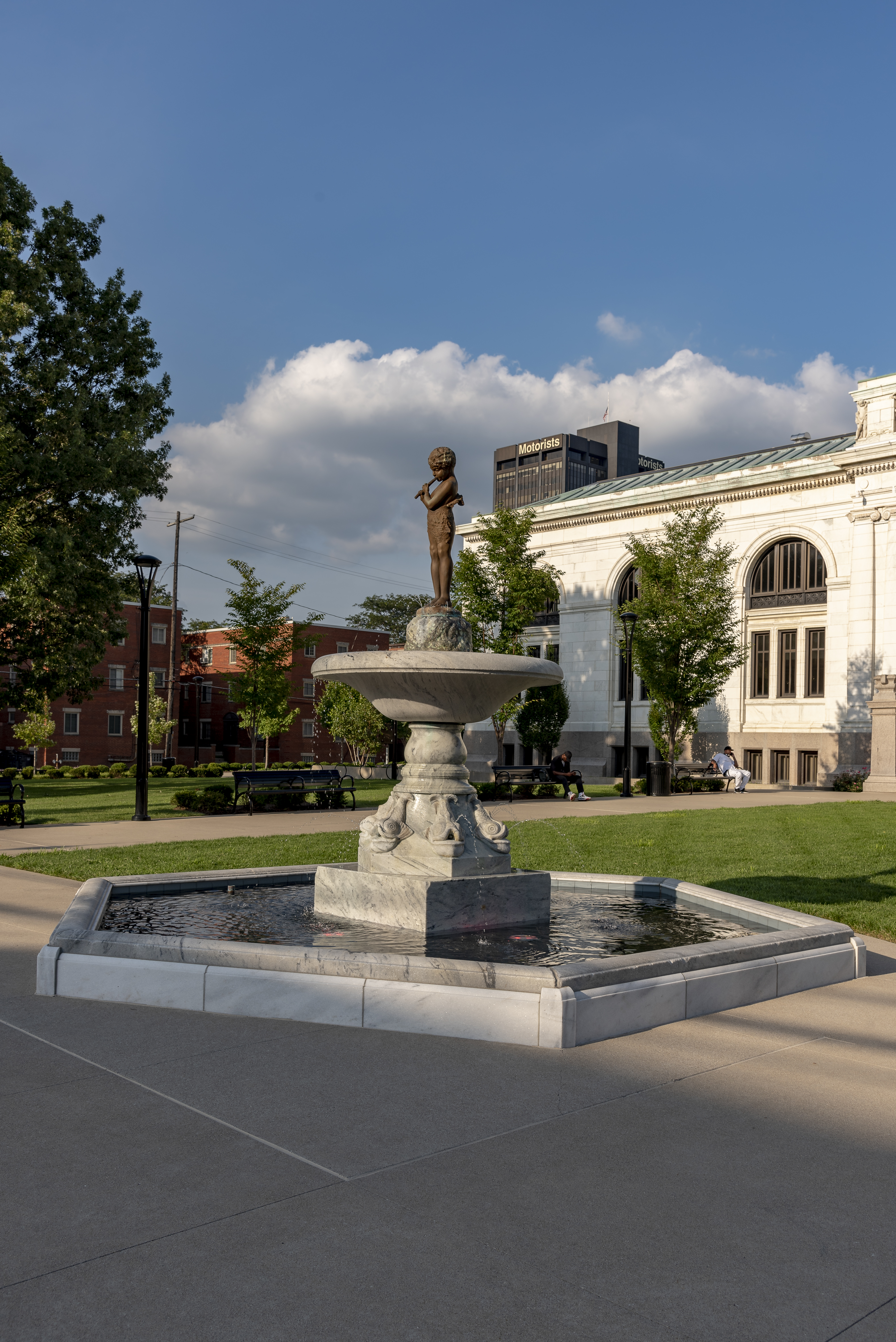 a fountain in Carnegie plaza outside the Columbus Metropolitan Library.